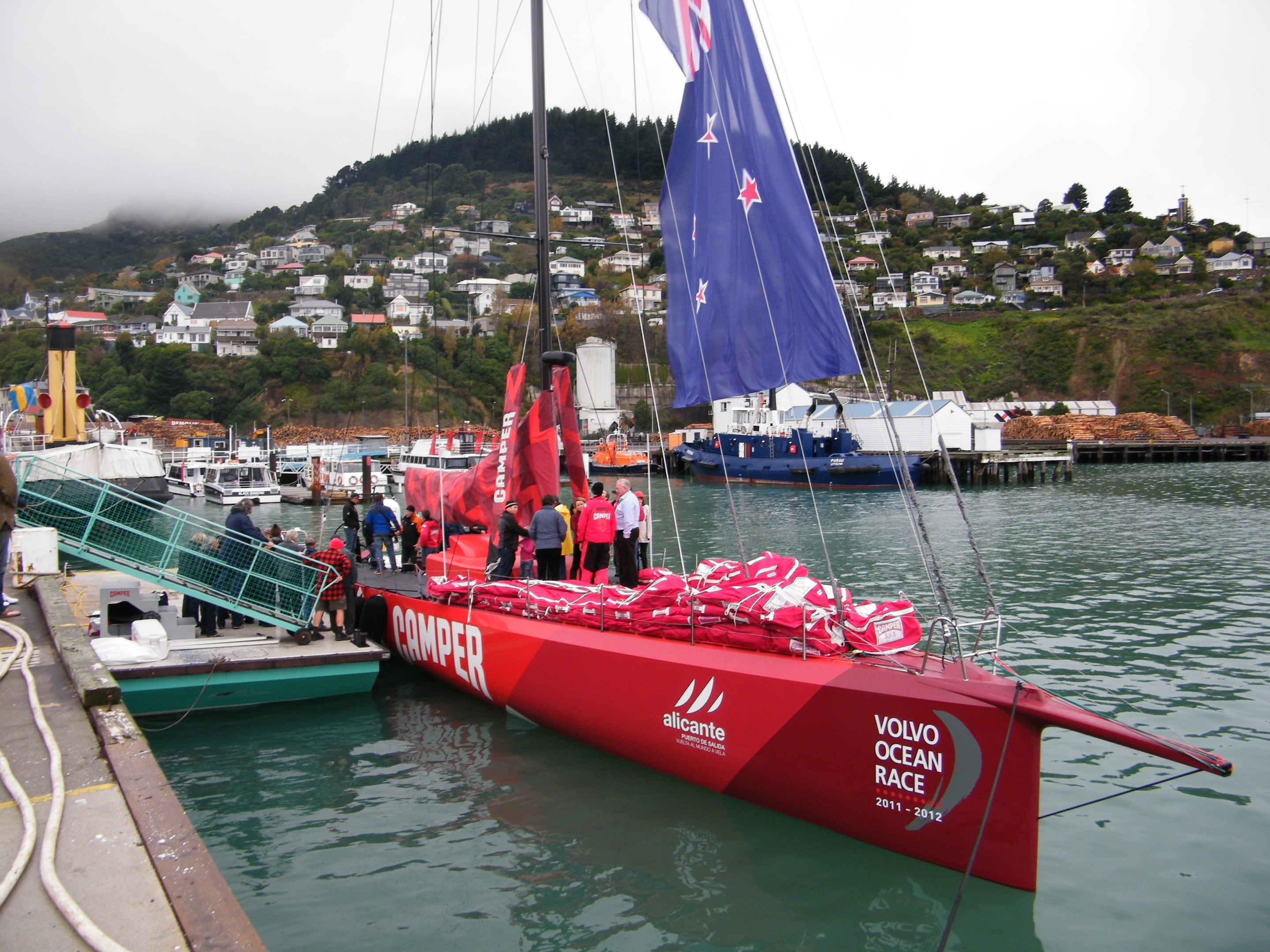 A gloomy morning, with rain to follow